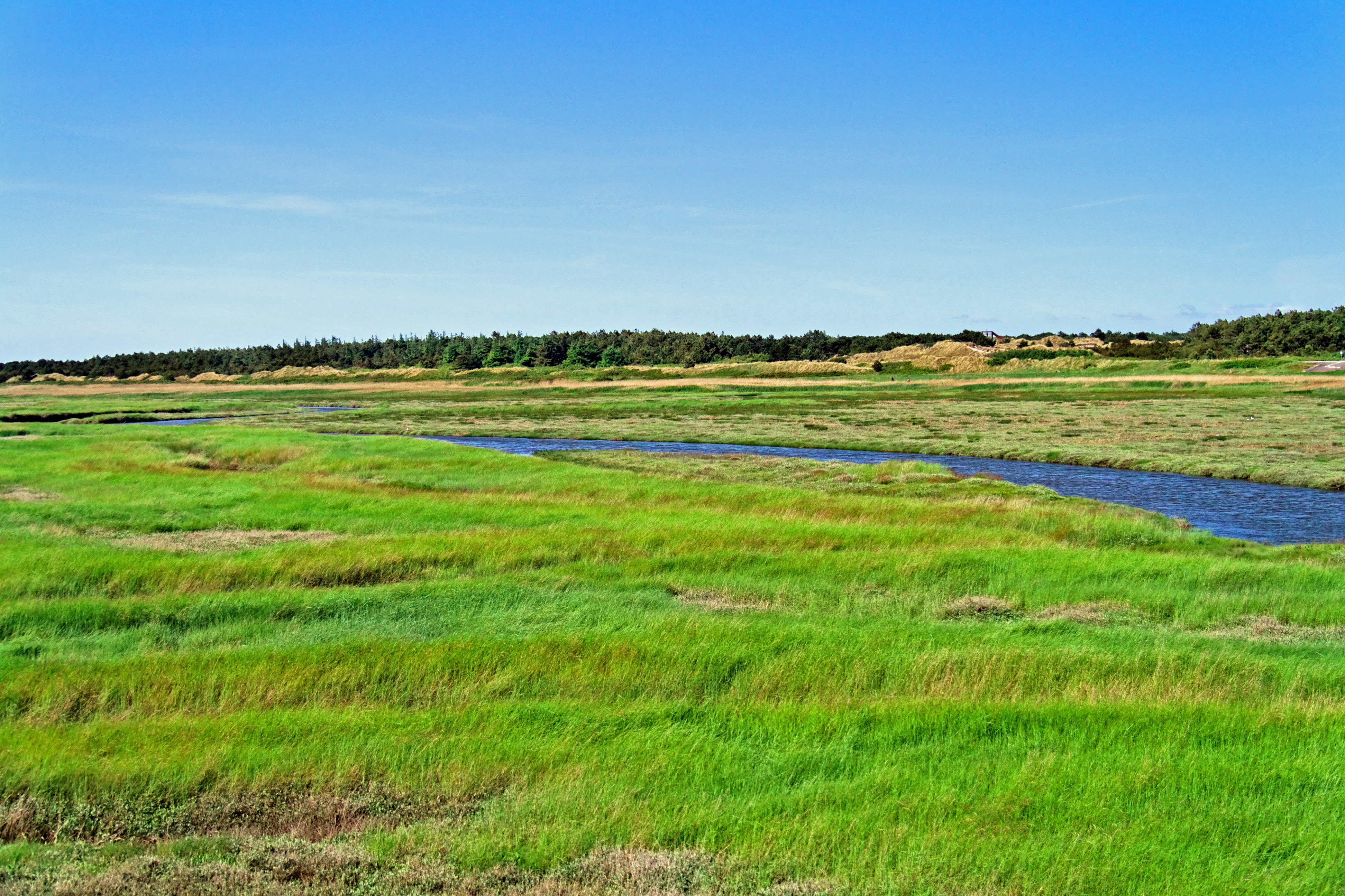 Saltmarsh Sankt Peter-Ording, Nordfriesland